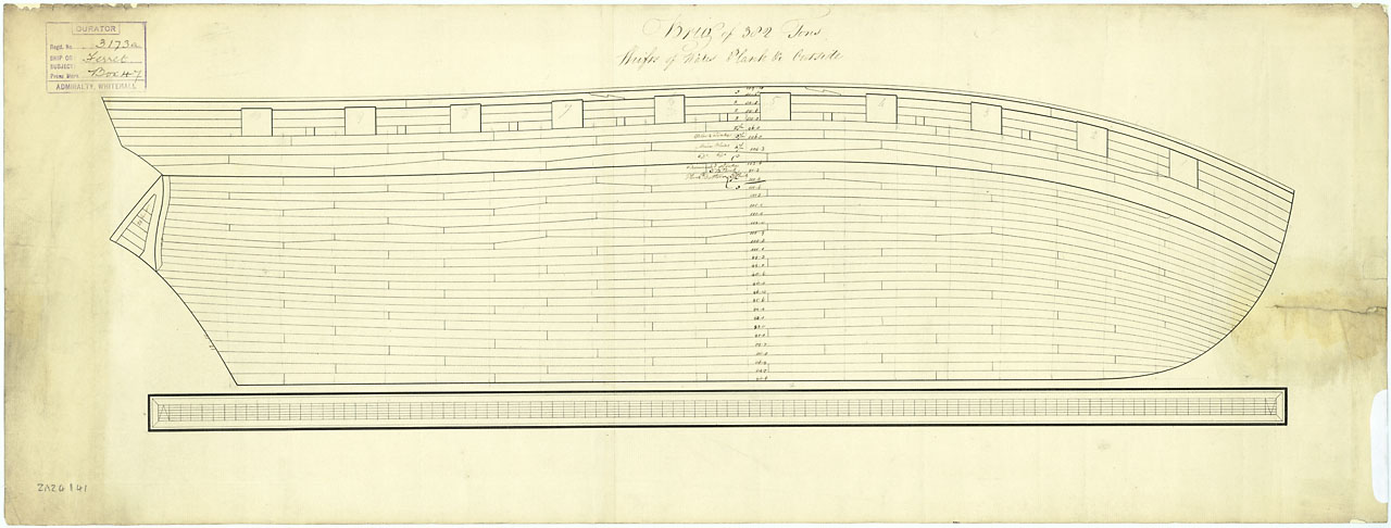 52 ships of the Cruizer class (1797) being built or ordered during 1806/1807. Scale: 1:48. Plan showing the framing profile (disposition) for the Cruizer class (1797). As the plan has the watermark of 1806, it is likely to refer to those launched in that year and after. This includes Ferret (1806), Racehorse (1806), Rover (1808), Leveret (1806), Bellette (1806), Mutine (1806), Emulous (1806), Alacrity (1806), Philomel (1806), Frolick (1806), Recruit (1806), Royalist (1807), Grasshopper (1806), Columbine (1806), Pandora (1806), Forester (1806), Foxhound (1806), Primrose (1807), Cephalus (1807), Procris (1806), Raleigh (1806), Carnation (1807), Redwing (1806), Ringdove (1806), Philomel (1806), Sappho (1806), Peacock (1806), Clio (1807), Pilot (1807), Magnet (1807), Derwent (1807), Eclypse (1807), Sparrowhawke (1807), Eclaire (1807), Nautilus (1807), Barracouta (1807), Zenobia (1807), Peruvian (1808), Pelorus (1808), Doterel/Dotterel (1808), Charybidis (1809), Hecate (1809), Rifleman (1809), Sophie (1809), Echo (1809), Arachne (1809), Castillian (1809), Persian (1809), Trinculo (1809), Crane (1809), Thracian (1809), Scylla (1809), all 18-gun Brig Sloops built in private yards. The plan may relate to the later ships of the class built up to 1815. FERRET 1806